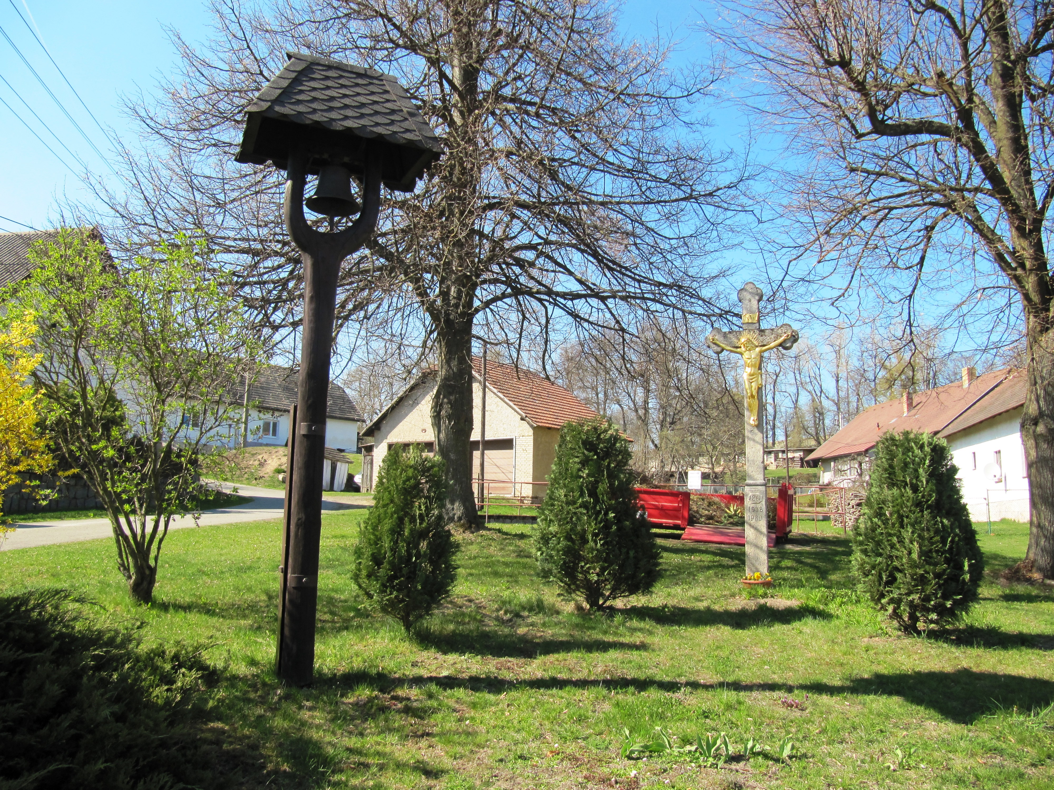 Bohuňov, Žďár nad Sázavou District, Czechia, part Janovičky.